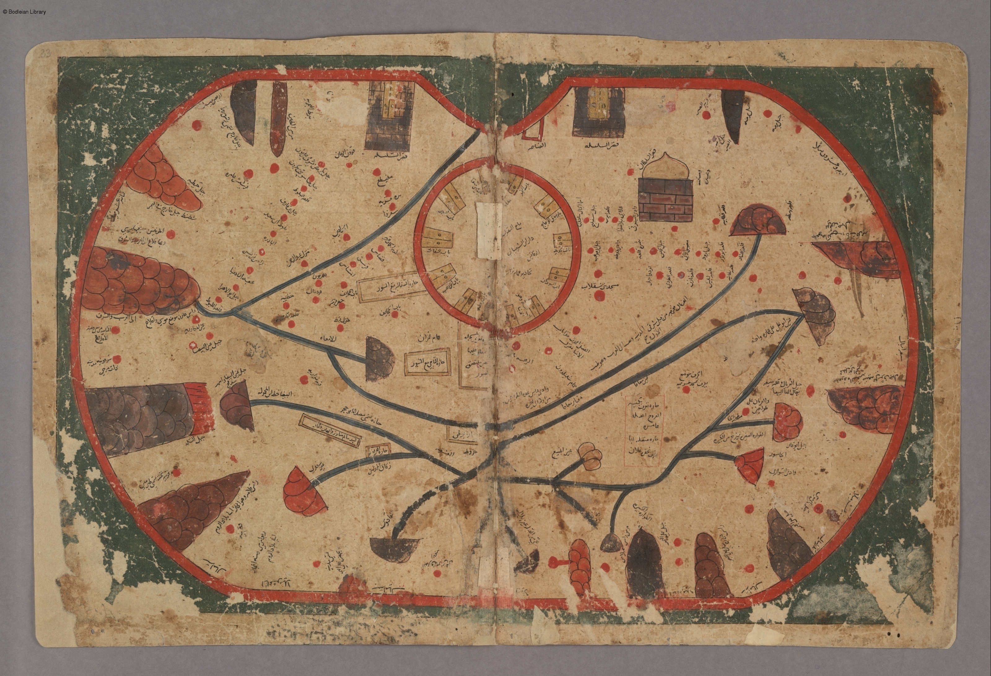 Map of Sicily in the anonymous Arabic manuscript called "Book of Curiosities", 13th-century copy of an original written in the second half of the 11th century and preserved at the Bodleian Library, Oxford. The detailed city plan corresponds to Palermo.